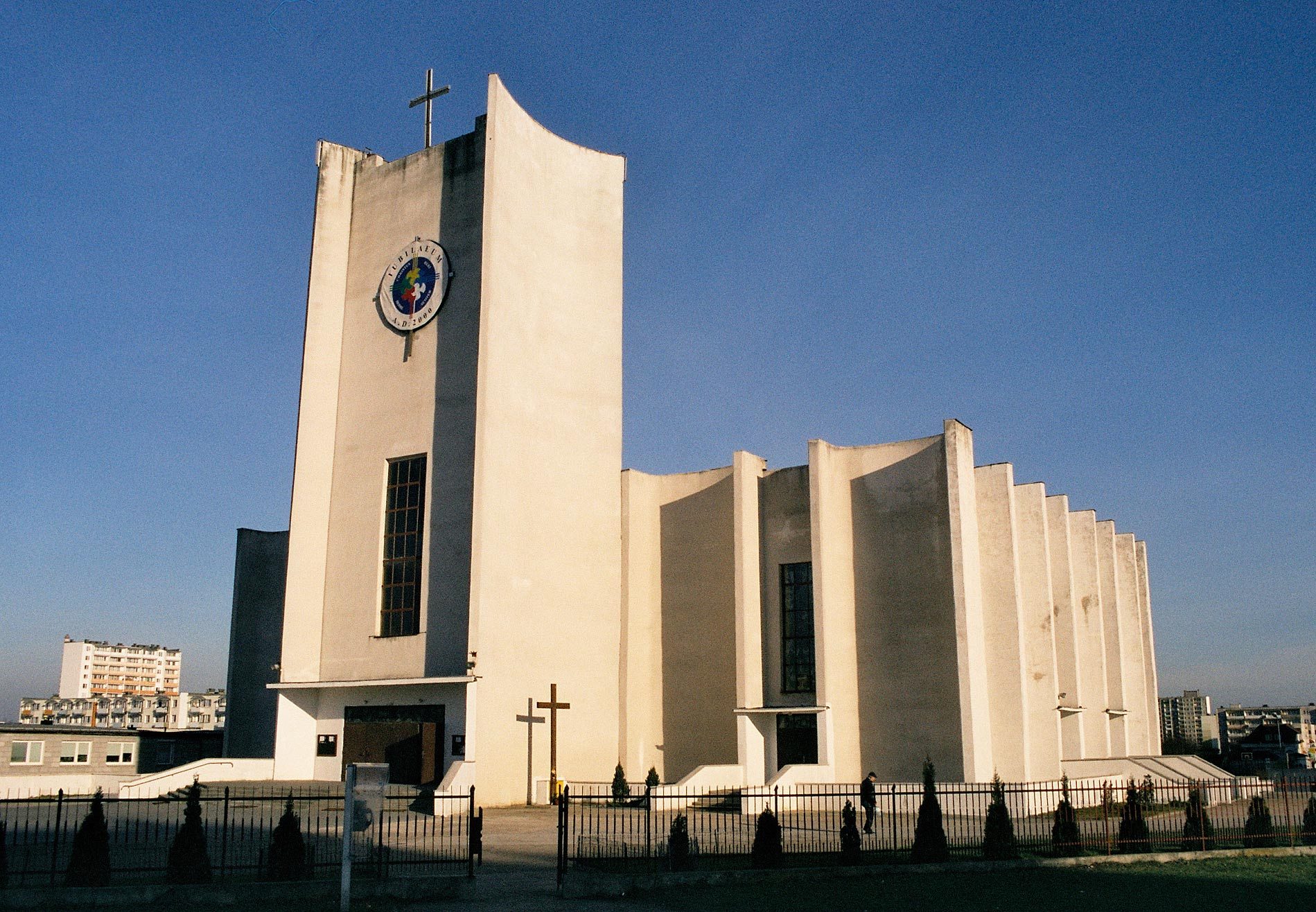 Toruń, Poland, church of St. Maximilian Kolbe in Rubinkowo district.